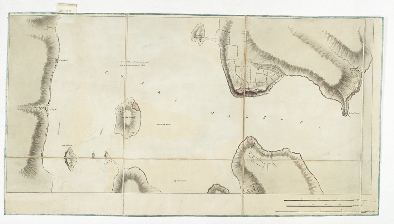 [Cork Harbour]Single sheet, manuscript. Segmented and backed. Scale: 1:12,000. North at 270 degrees. The chart marks areas which dry at low water. The scale is in English miles, Irish miles, and feet. Additional Places: Cobh, Ireland. There is a note to the effect that the Men of War anchoring ground will not contain a large fleet. Gren2C/5 [Cork Harbour]